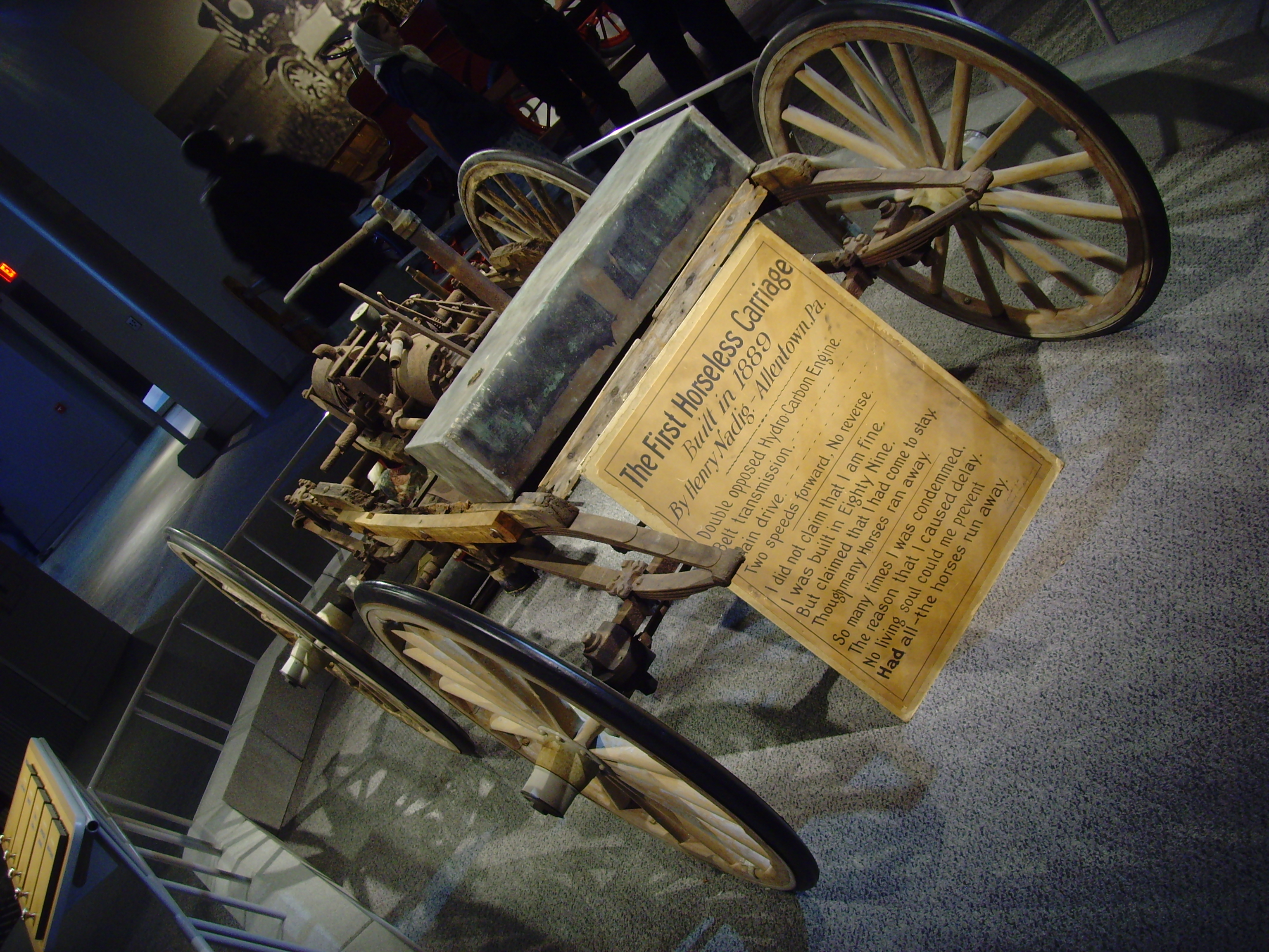 0111 Allentown - America on Wheels Auto Museum